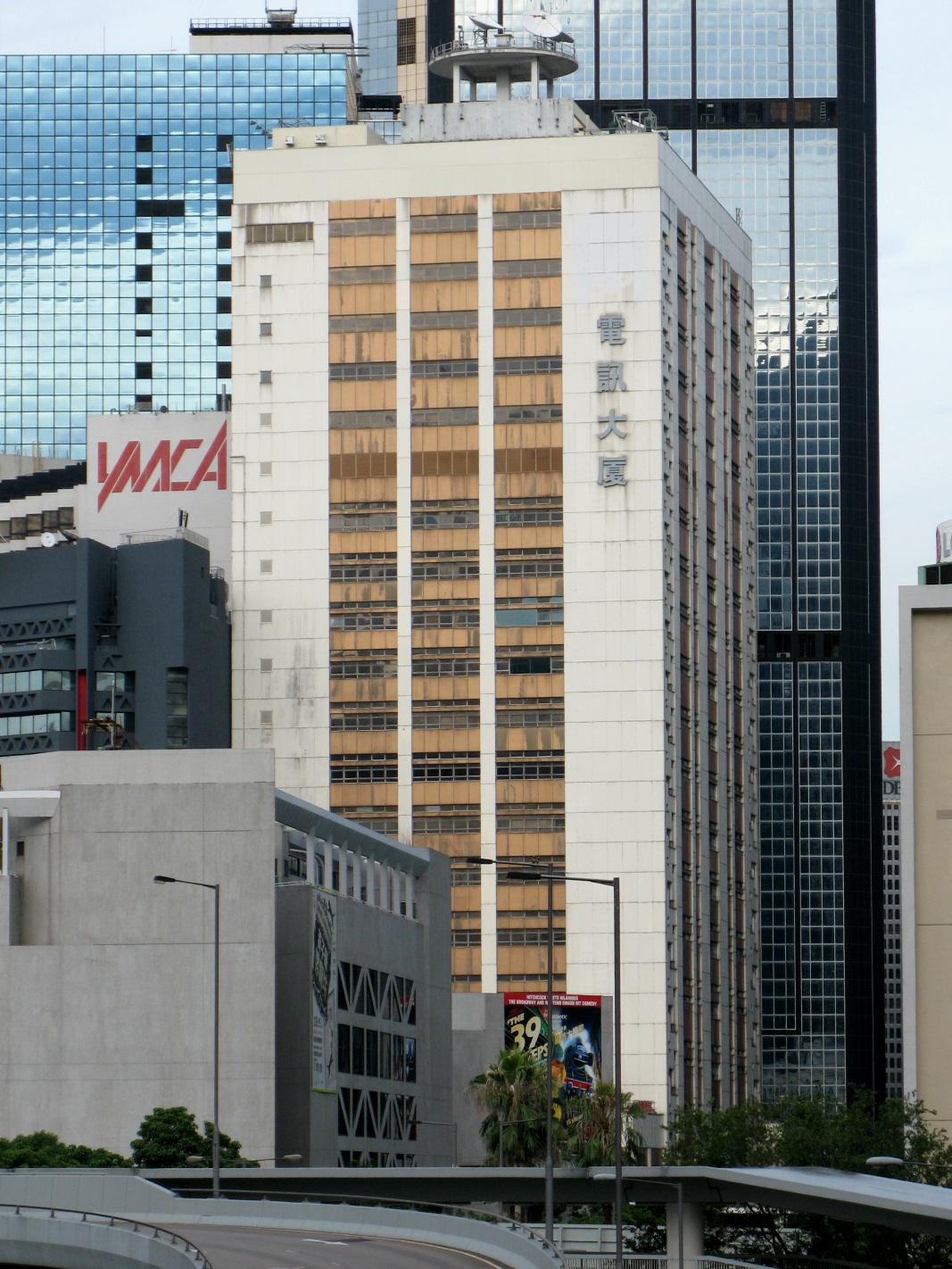 HK Telecom House 灣仔電訊大廈